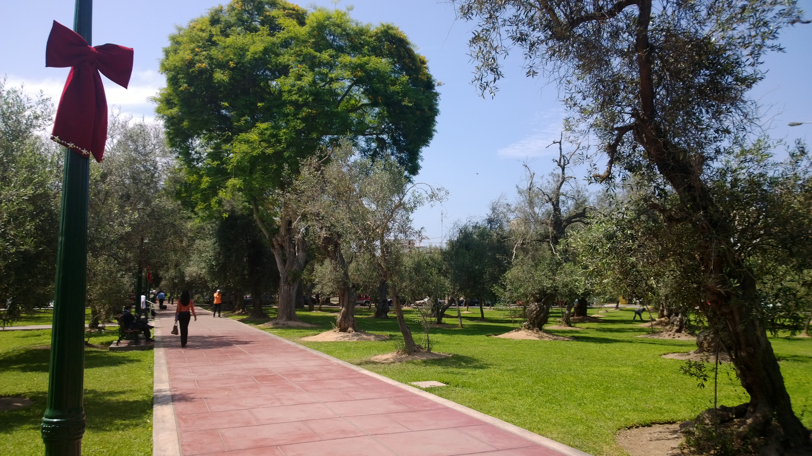 Bosque del Olivar.